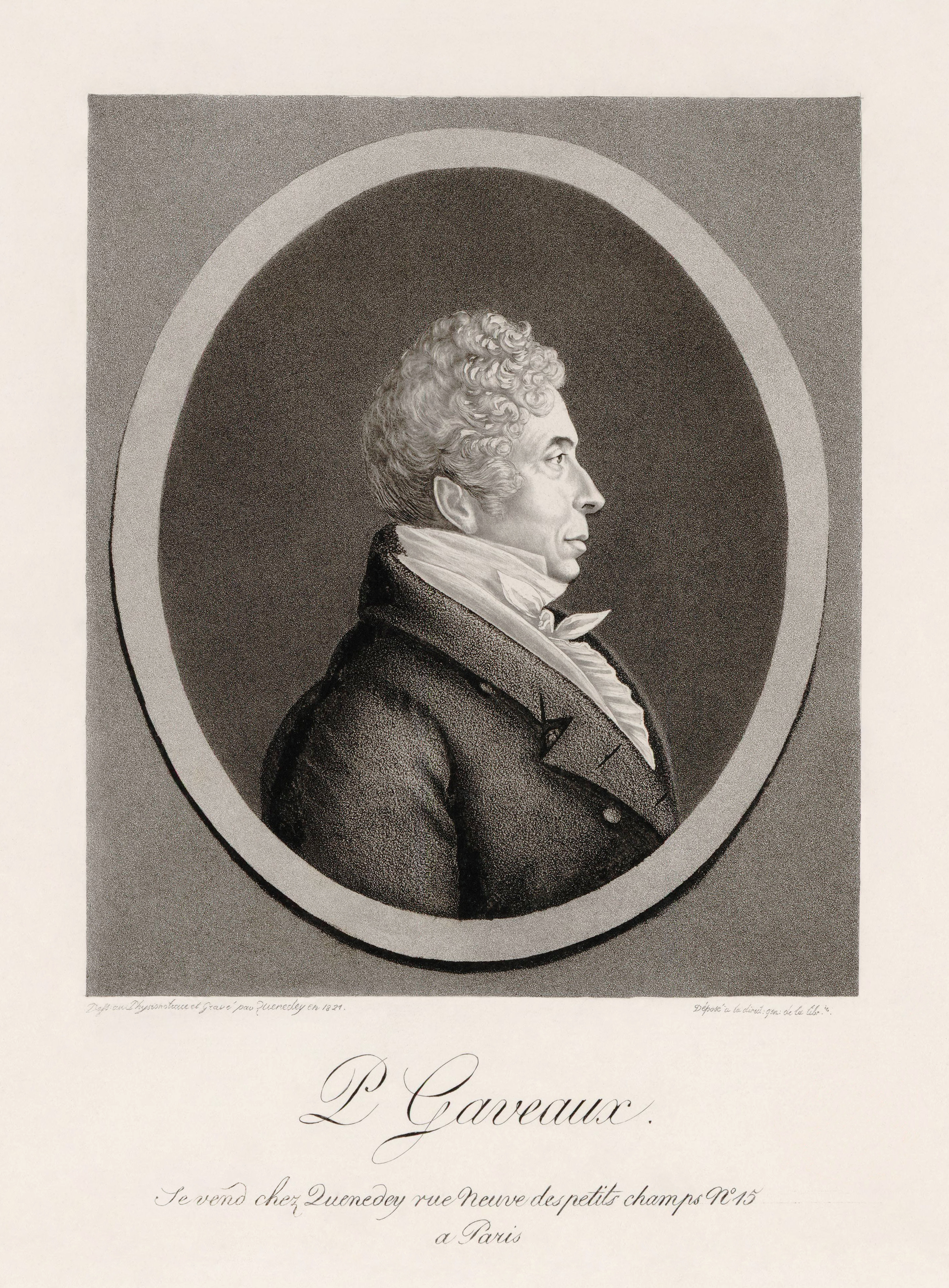 Pierre Gaveaux, based on a Physionotrace